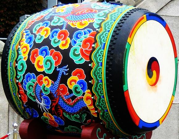 Dancheong Style